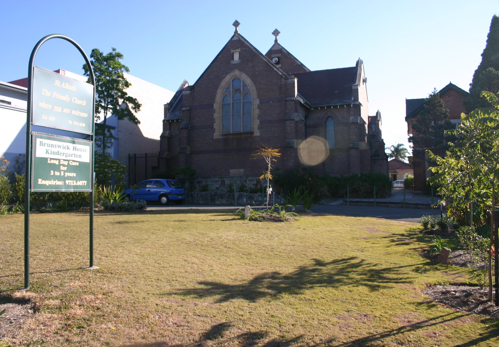 St Albans church Five Dock.